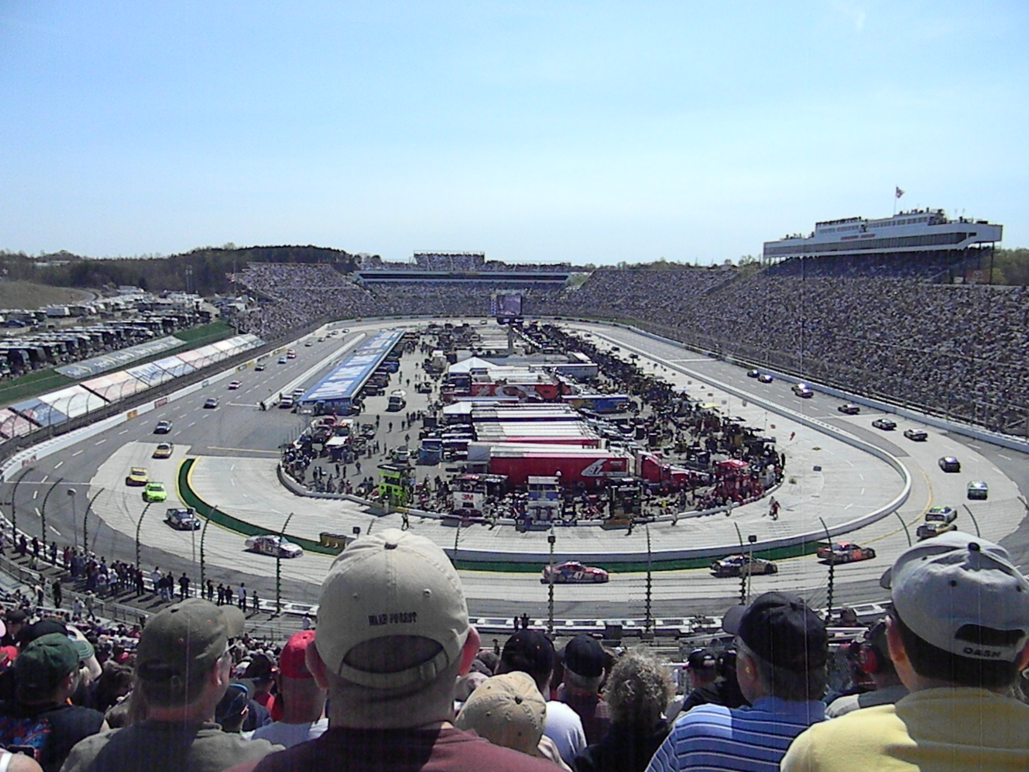 The Martinsville Speedway during the 2011 Goody's Fast Relief 500, held on April 3, 2011.